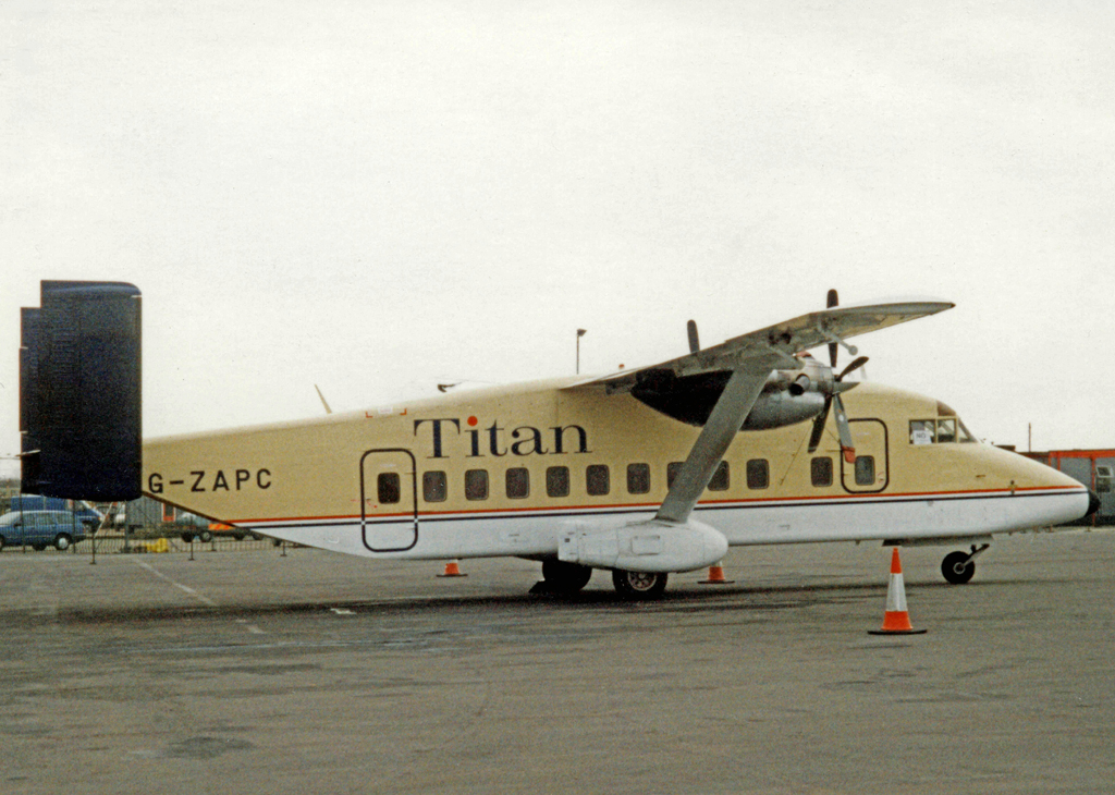 Short SD3-30 G-ZAPC of Titan Airways at Norwich Airport in 1994